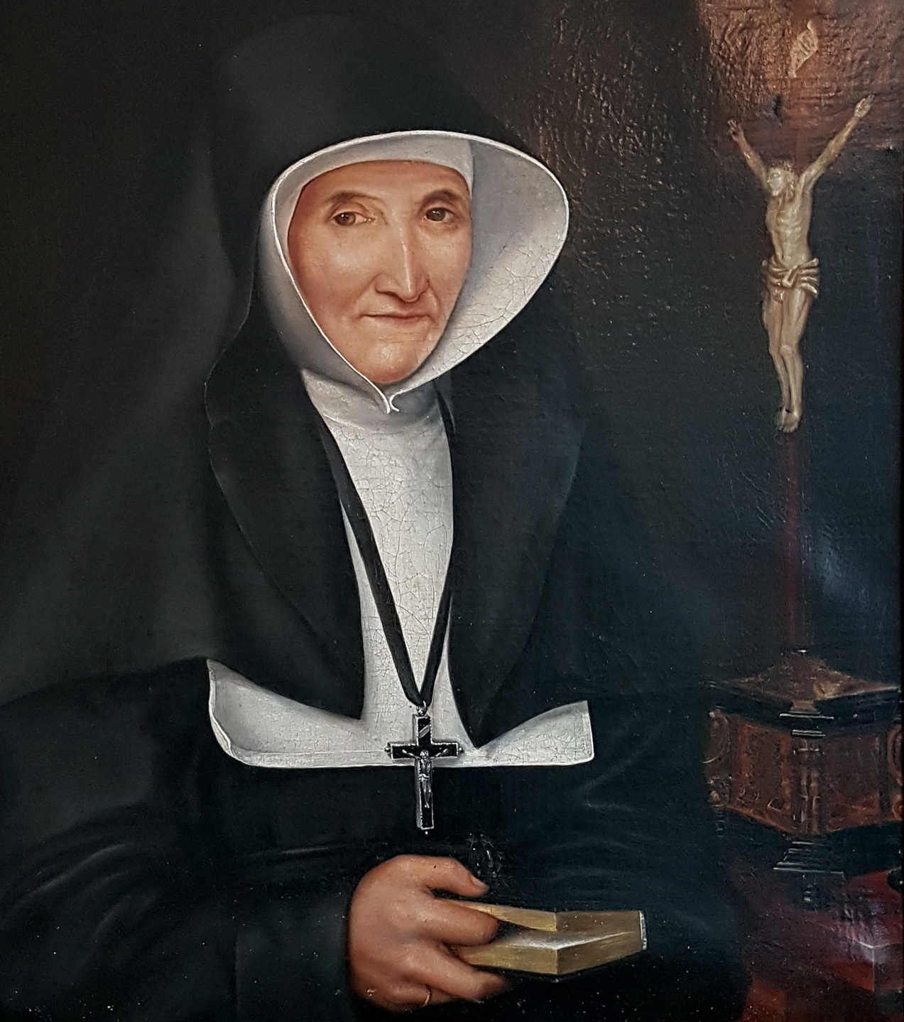 Convent of the Sisters of Mercy of St. Borromeo (Zusters Onder de Bogen) in Maastricht, the Netherlands. Interior of a museum room in the former provostry of Saint Servatius. In 1845 this building became the convent of the Sisters of Mercy of St. Borromeo and in 1864 this is where the congregation's foundress, Elisabeth Gruyters, died. The objects in these rooms are connected to Mother Elisabeth and the history of the congregation. This is a painting of her.